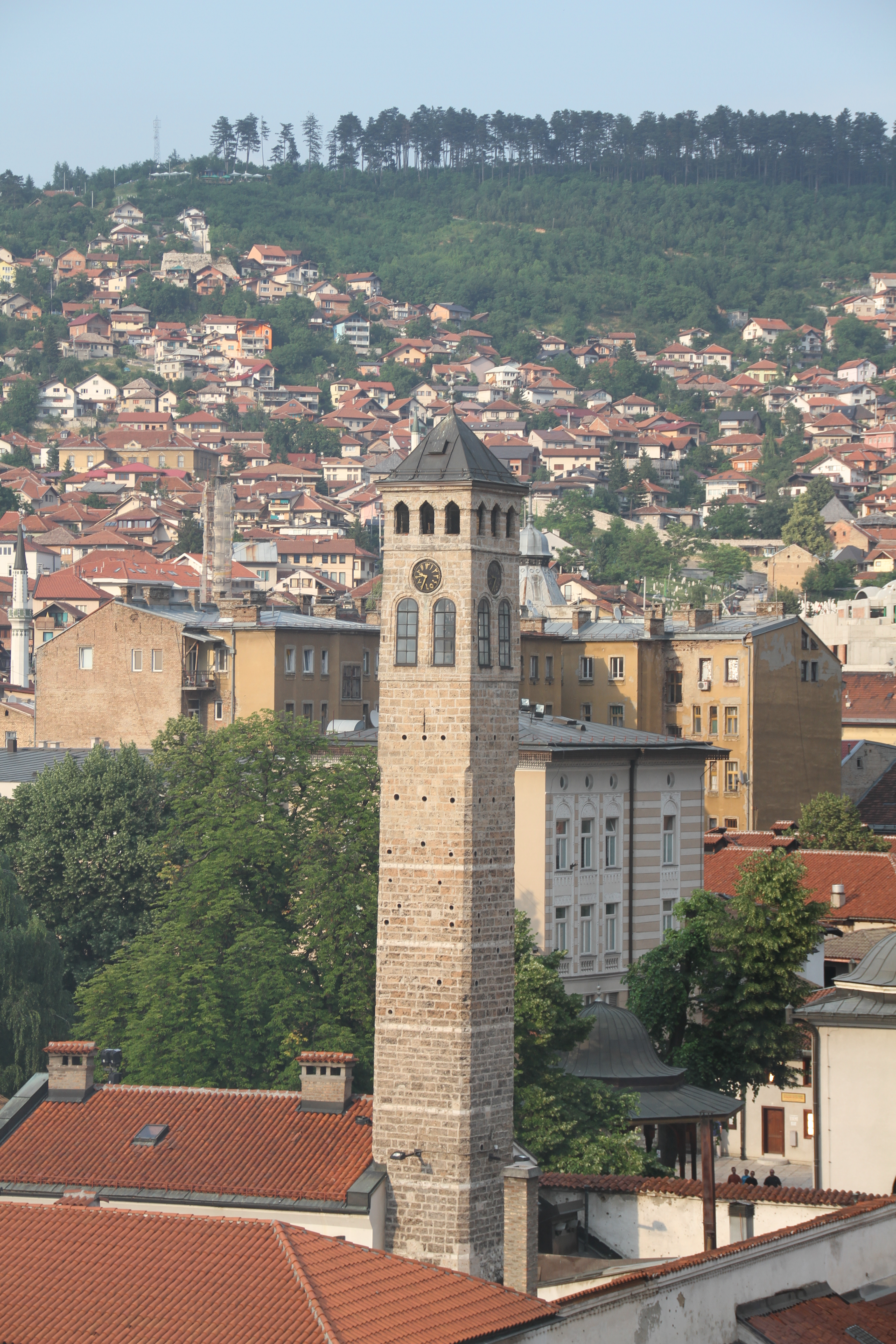 Belfry of Sarajevo